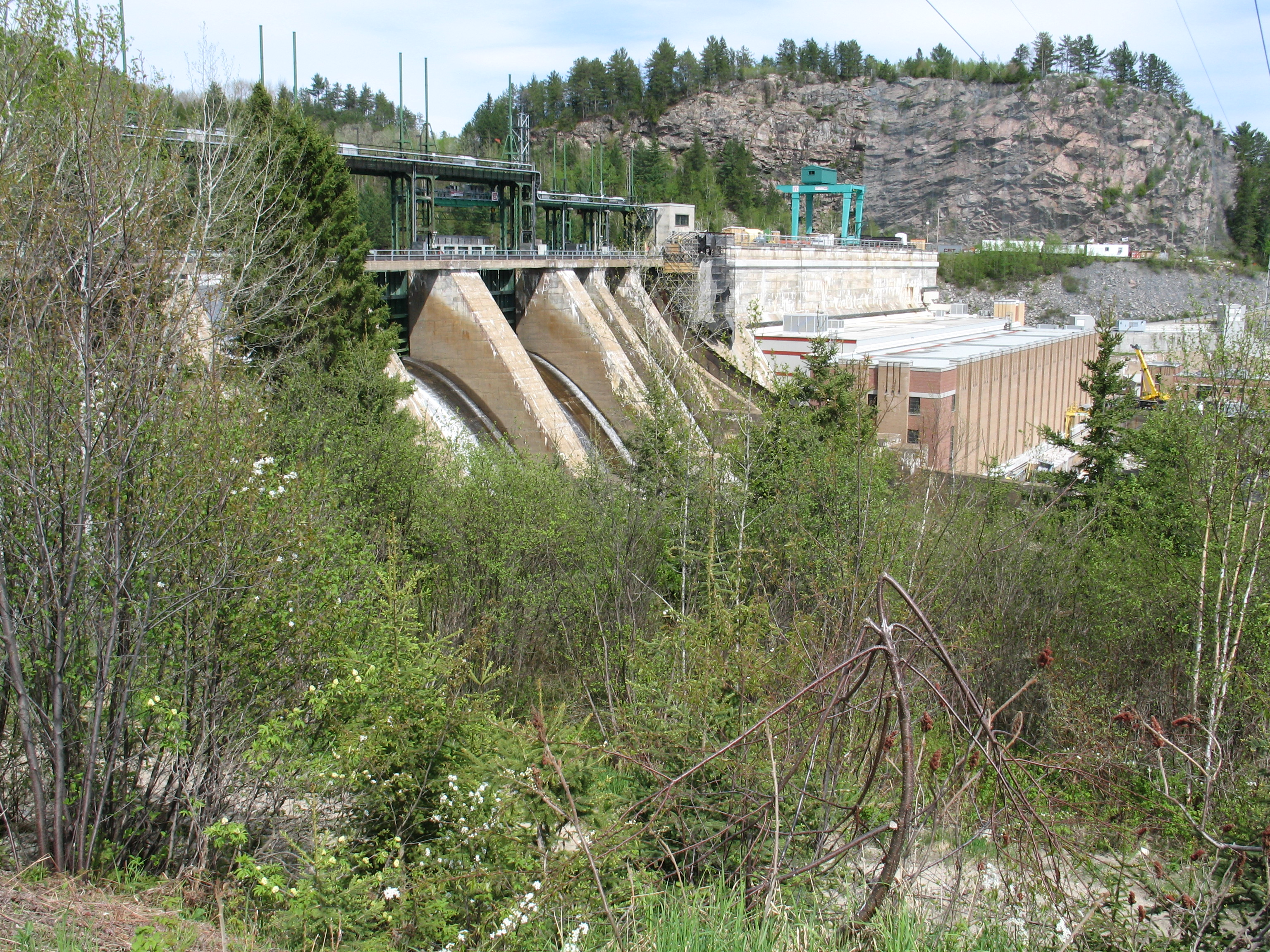 Hydro-Québec's La Tuque generating station, in La Tuque, Quebec. This 263-MW power station has been inaugurated in 1940.